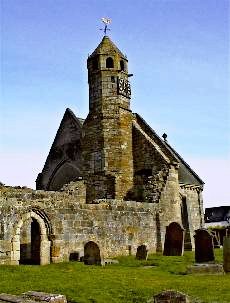 St. Brides kirk, Douglas, Lanarkshire